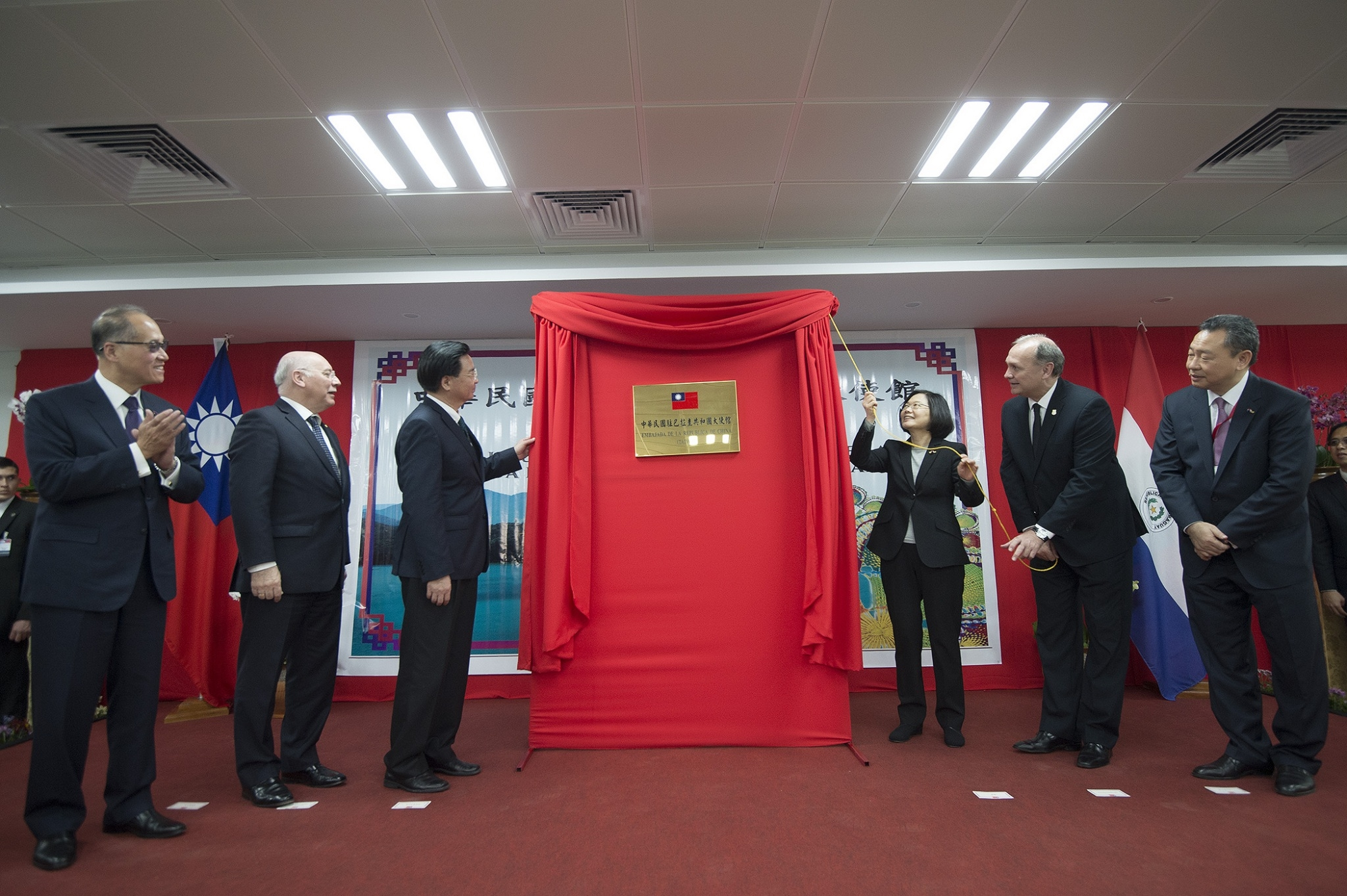 President Tsai inaugurates the new ROC embassy building in Paraguay. (2016/06/28) La Presidenta Tsai inaugura la nueva sede de la Embajada de la República de China (Taiwán) en el Paraguay. (2016/06/28) 授權方式及範圍：中華民國總統府│政府網站資料開放宣告 Authorization Method & Scope: Office of the President, Republic of China (Taiwan) | Government Website Open Information Announcement